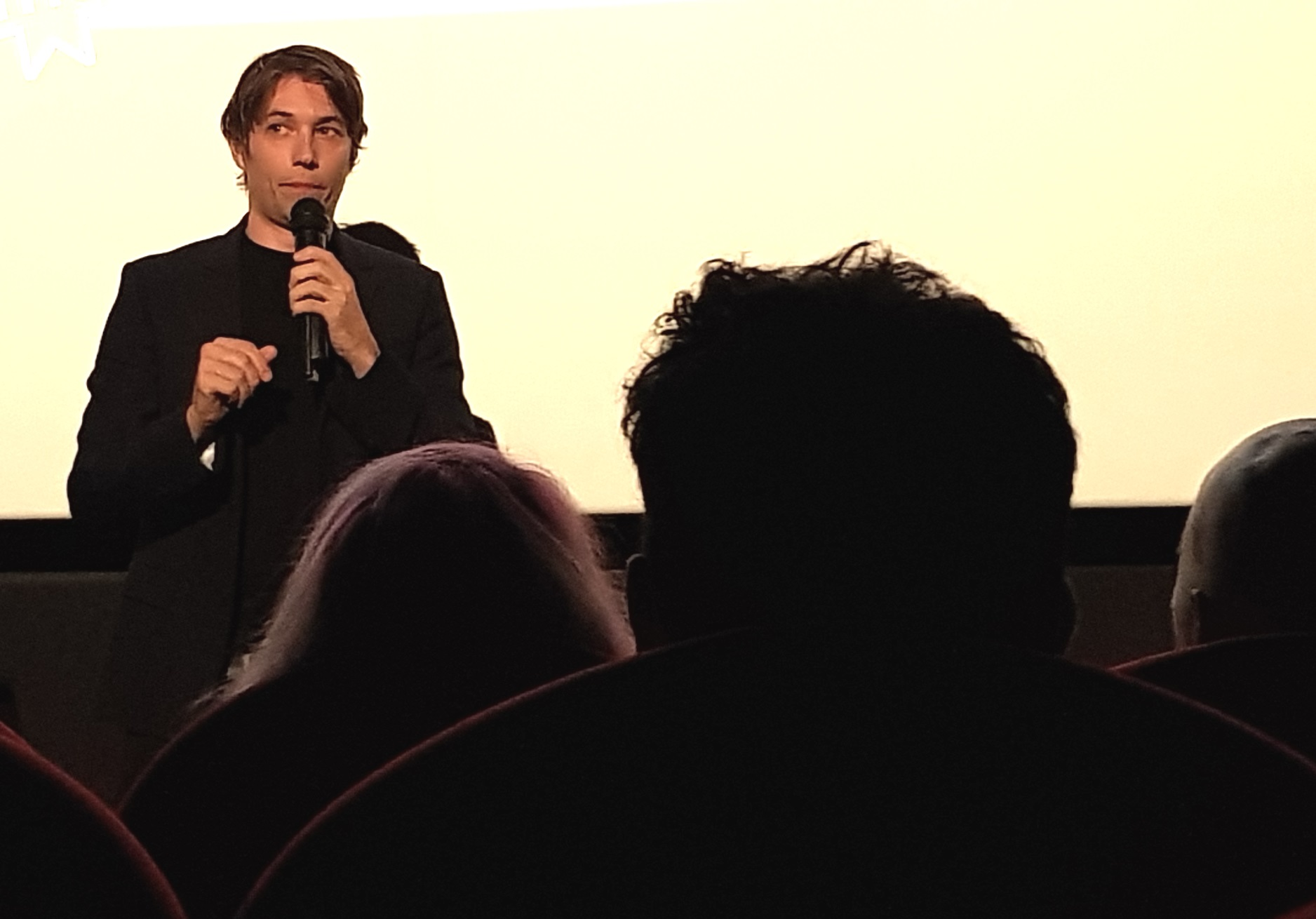 Director Sean Baker at "The Florida Project" Paris Premiere